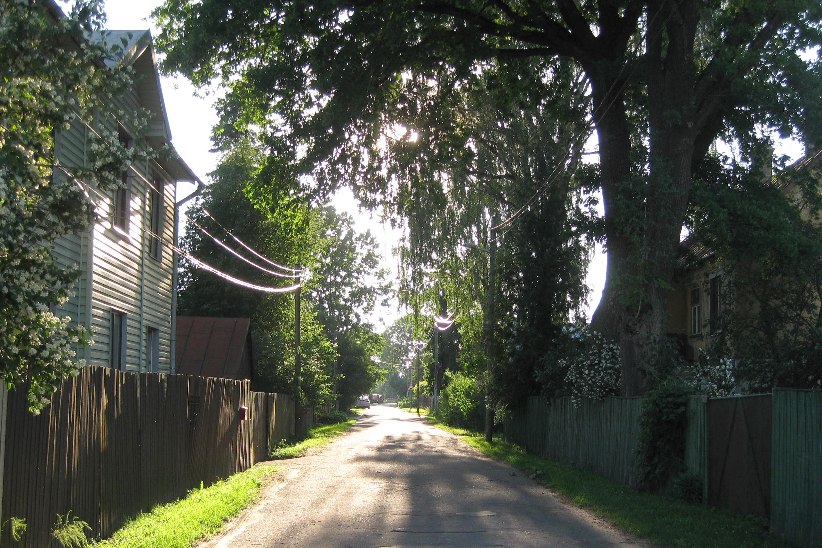 Ābolu street in Rīga, Latvia